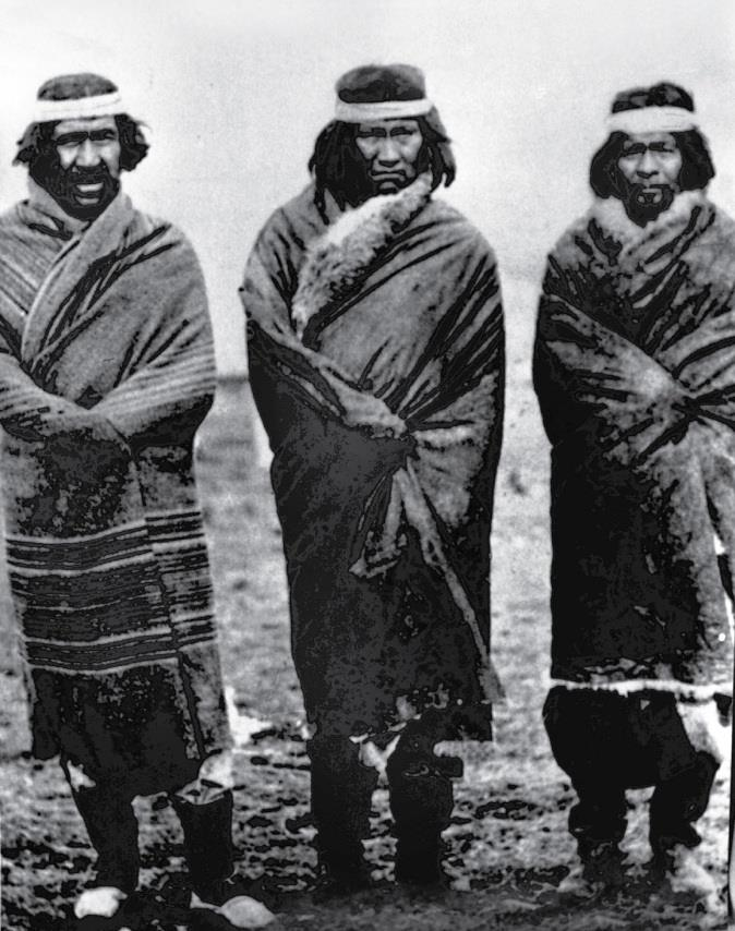 Tehuelches indian chiefs: K'achorro, K'oparren and Kamayo.